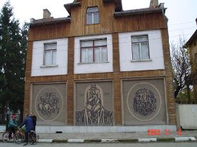 Historical museum of Byala Cherkva that opened on 10.5.1976